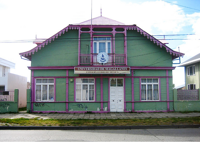 Conservatory of Music of the University of Magallanes.